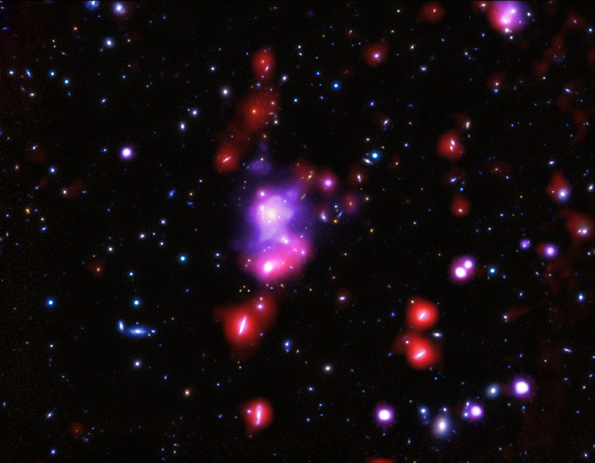 The most massive cluster of galaxies with an age of 800 million years or younger has been discovered and studied. X-ray data from Chandra allowed astronomers to accurately determine the mass and other properties of this cluster, nicknamed the "Gioiello" (Italian for "Jewel") cluster. This composite image of the Gioiello Cluster contains X-rays from Chandra (purple), infrared data from Herschel (red), and an optical image from Subaru (red, green, and blue). Results like this help astronomers better understand how galaxy clusters, the largest structures in the Universe held together by gravity, have evolved over time.